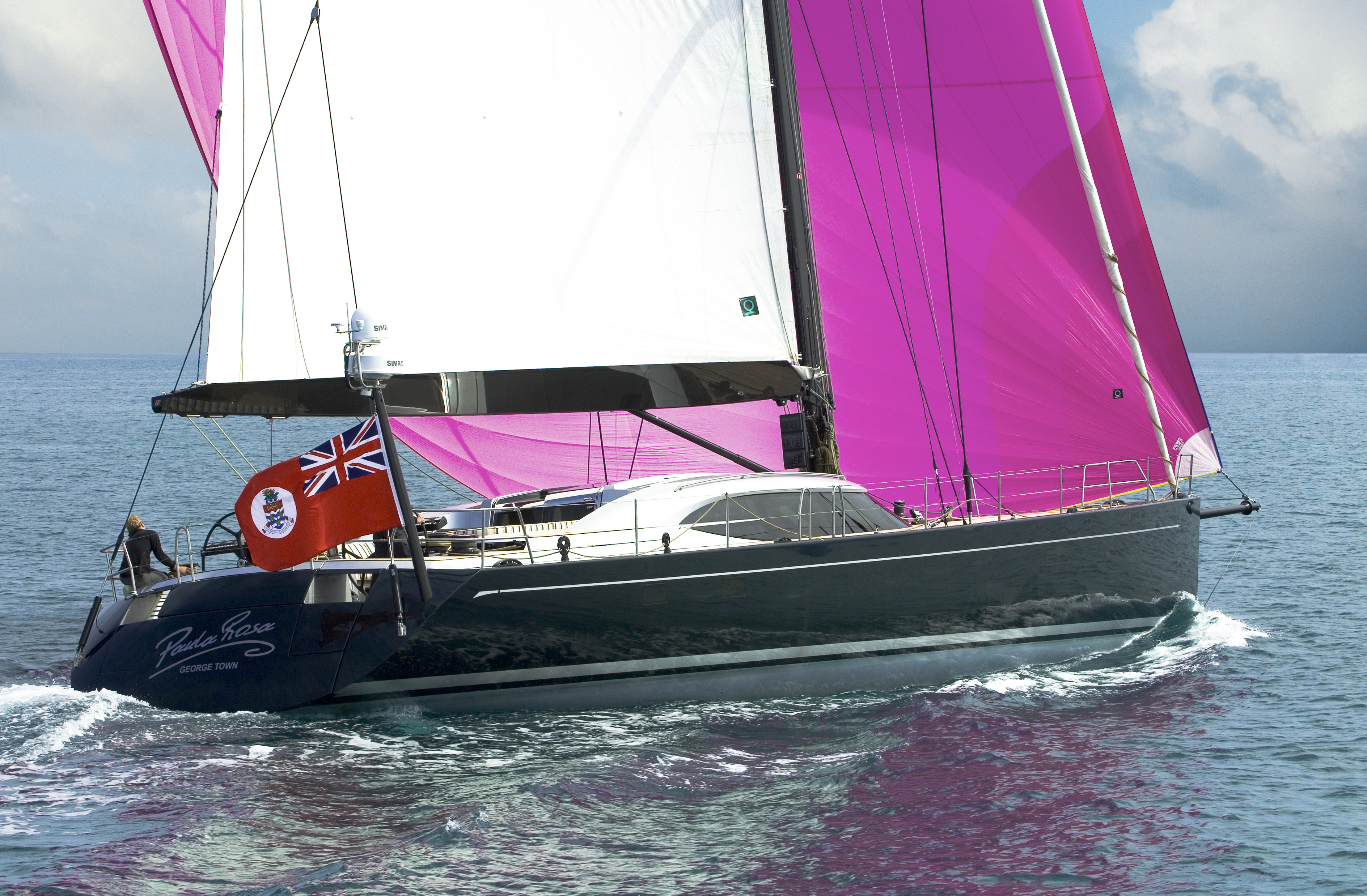 Shipman 80 carbon sailing yacht sailing faster than the wind, Bay of Piran, Slovenia, April 2008